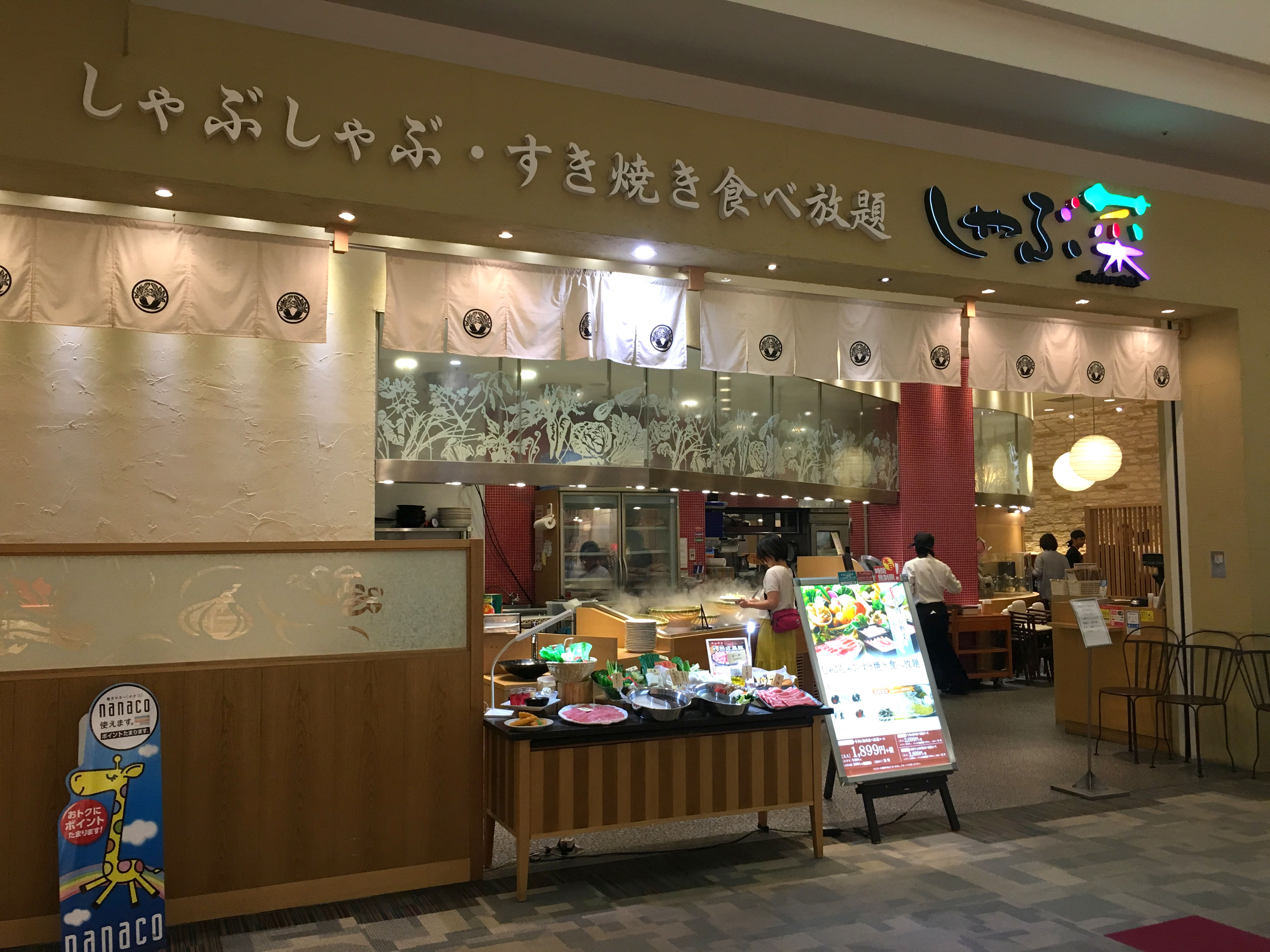 Shabusai (Japanese Shabu-shabu restaurant) Bell Mall Utsunomiya branch (Utunomiya, Japan)